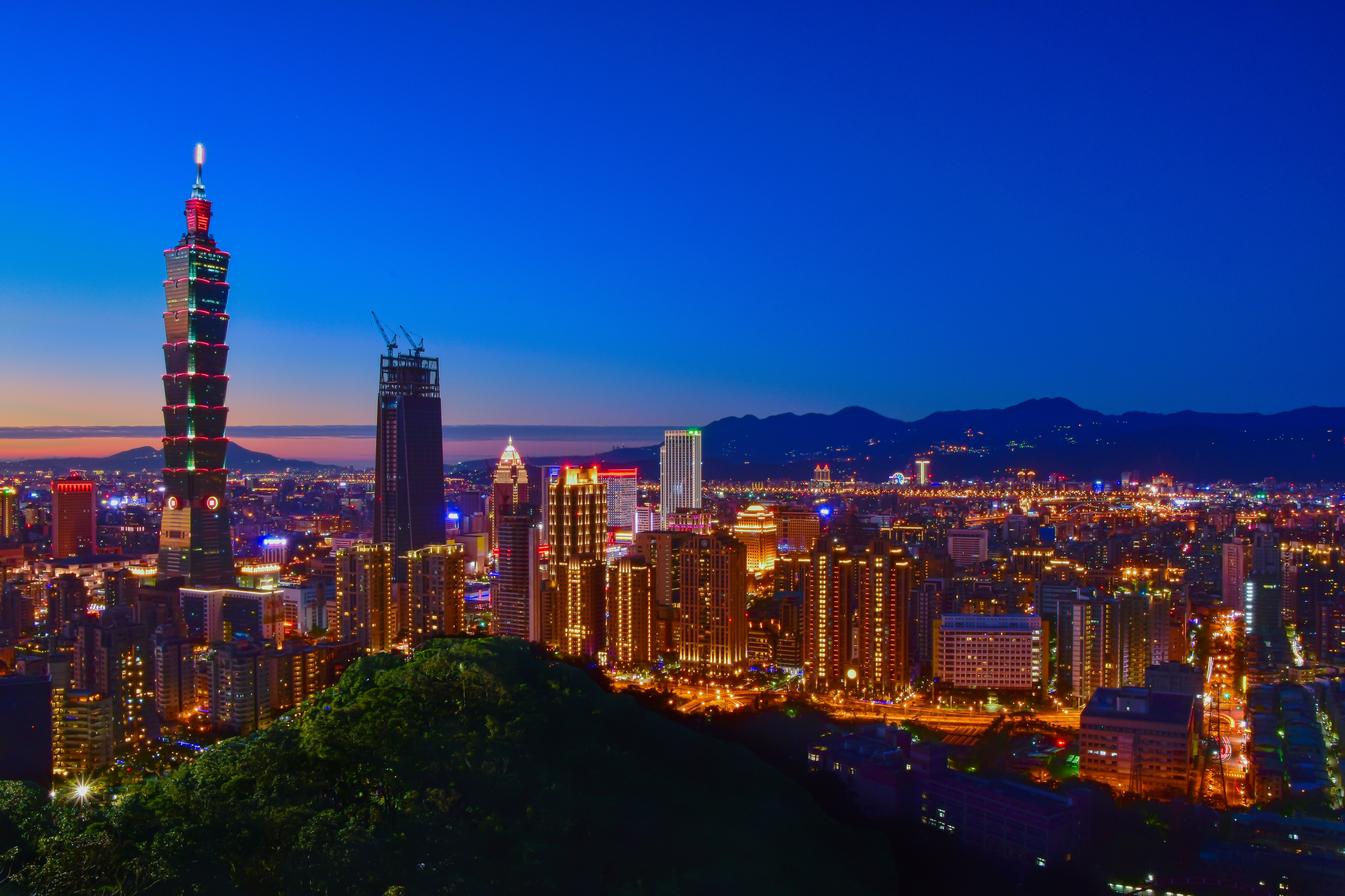 Taipei skyline in 2017